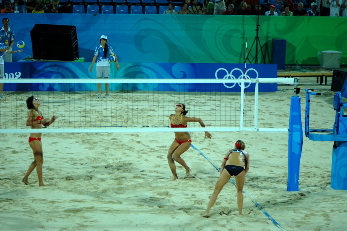 Beijing Olympics, Women's Beach Volleyball, Quarterfinals. Nicole Branagh (USA 1) Xue Chen (China, right) and Zhang Xi (China, left).